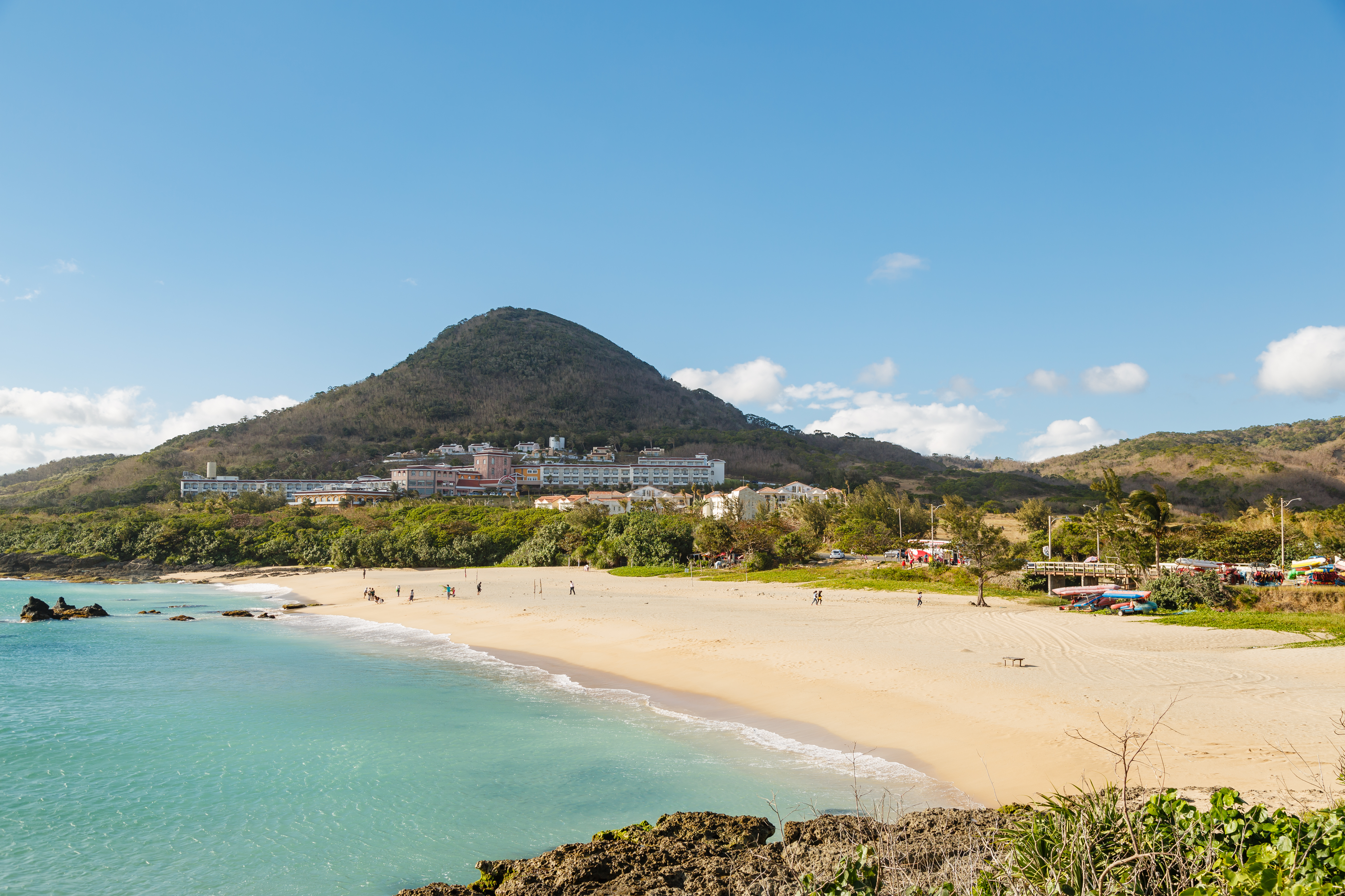 Kenting, Hengchun Township, Taiwan: A public beach in Kenting